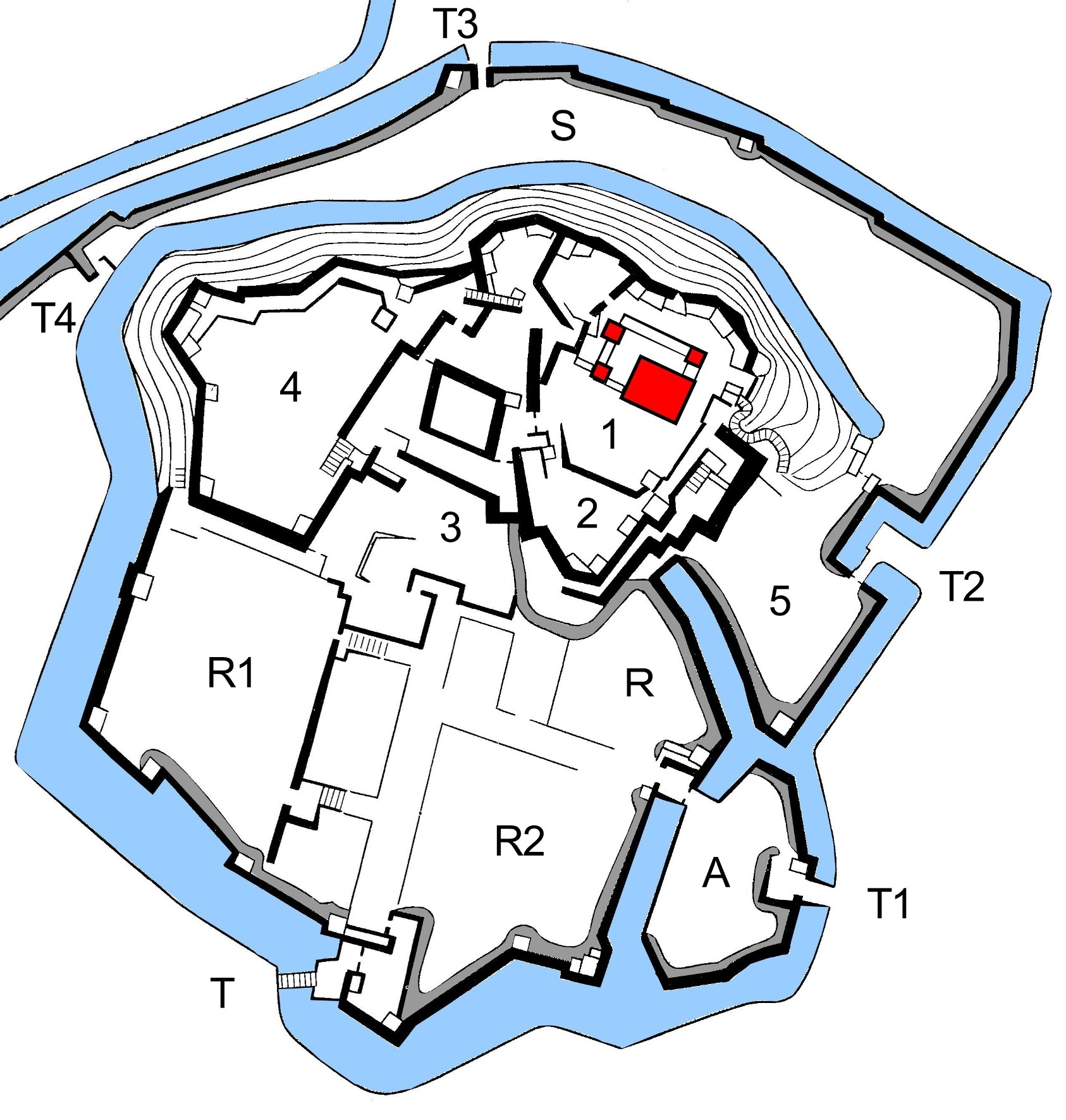 Layout of former Himeji Castle